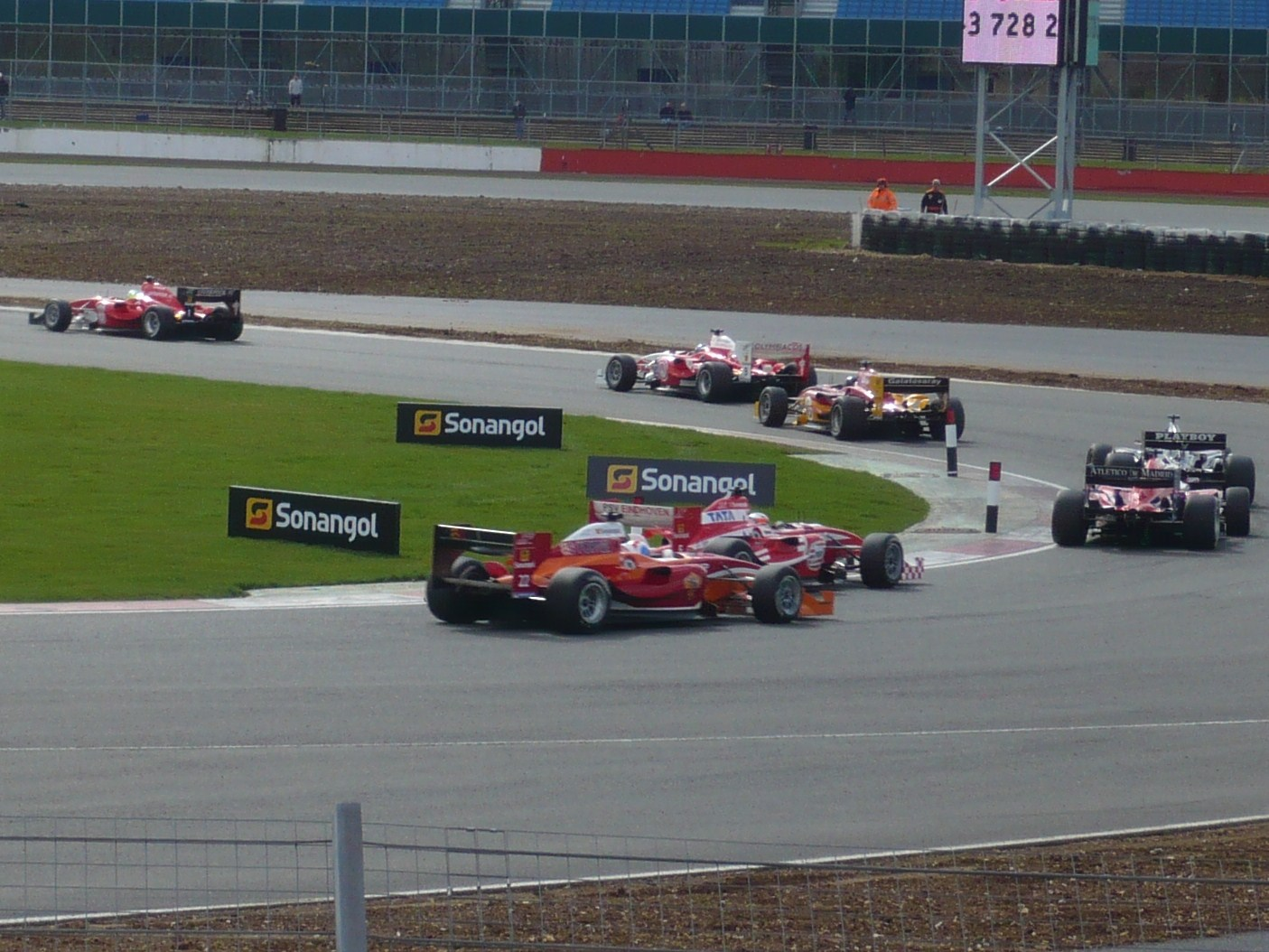 On track action with several cars at Brooklands corner. Photo taken by me at Silverstone SF round in 2010.